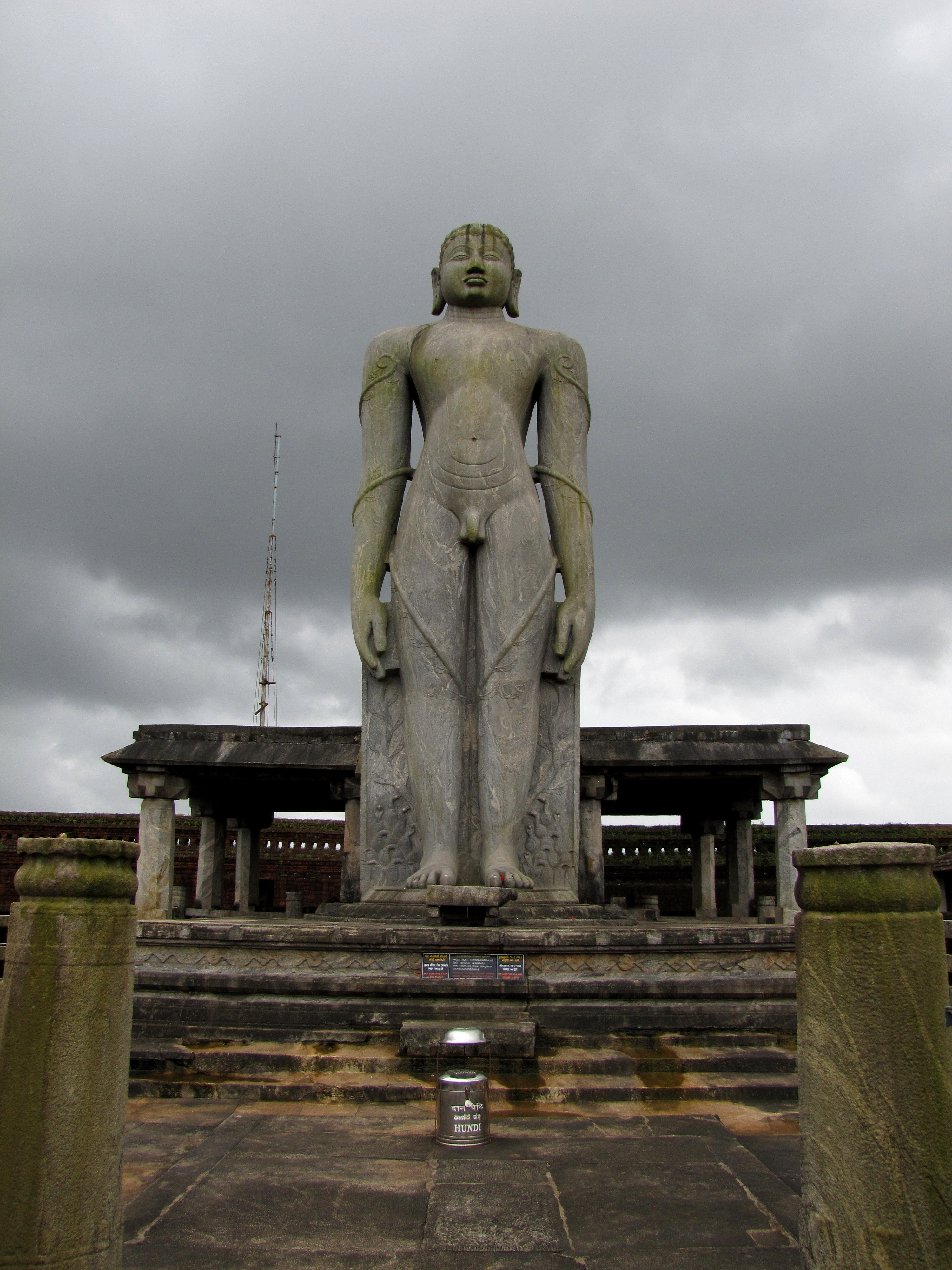 Gomateshwara Statue, Karkala. The 42feet high Gomateshwara statue is built in 14th century. It was installed on 13th February, 1432.